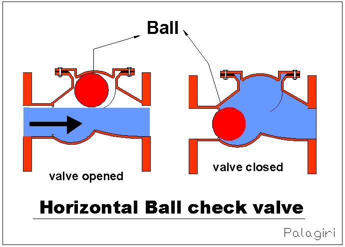 Horizontal ball check valve used in industries as non return valve